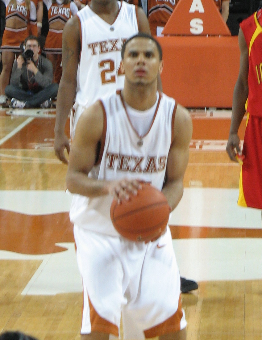 DJ Augustin about to shoot a free throw.